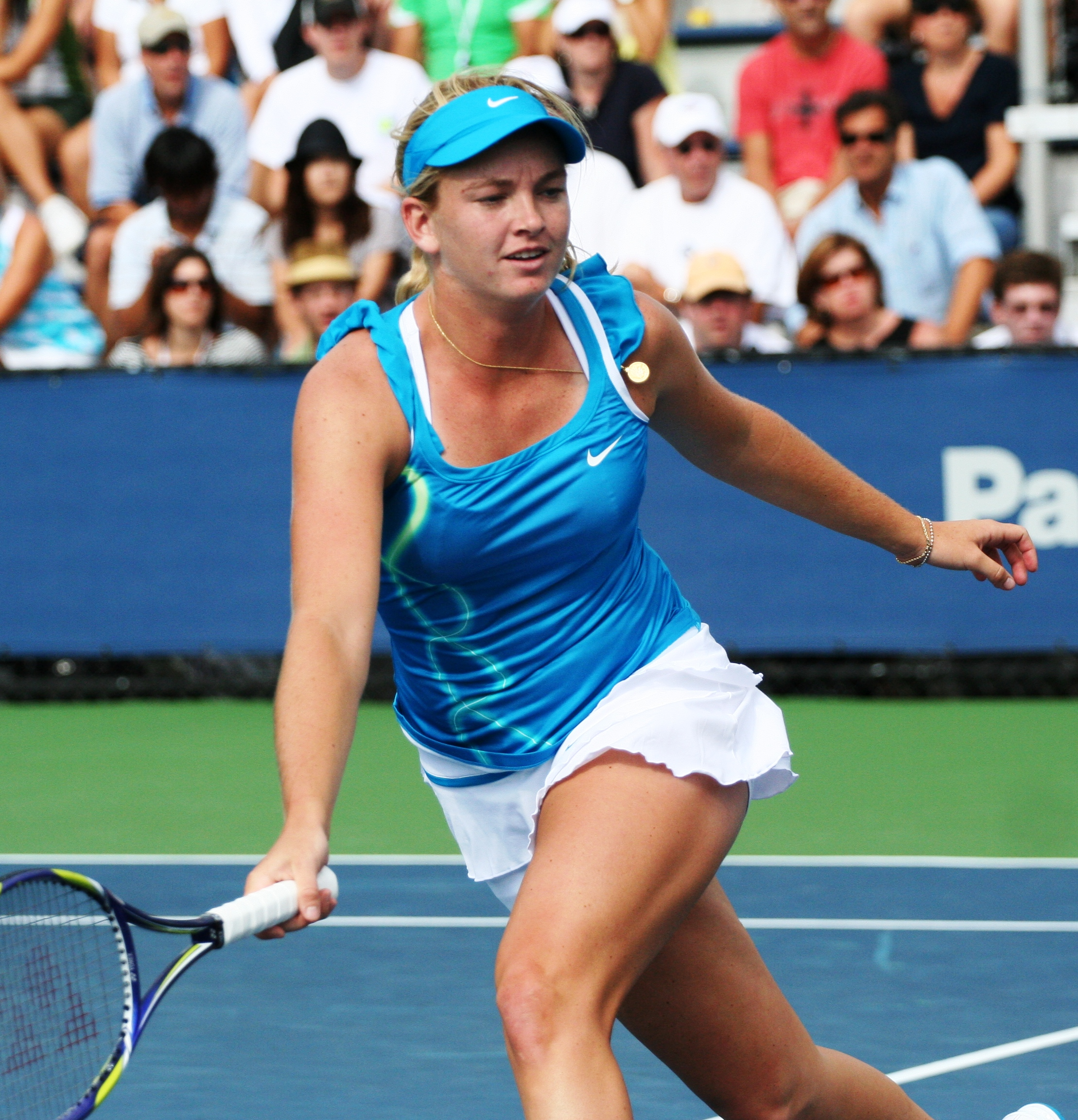 Coco Vandeweghe at the 2010 U.S. Open, Saturday, Sept. 4, 2010